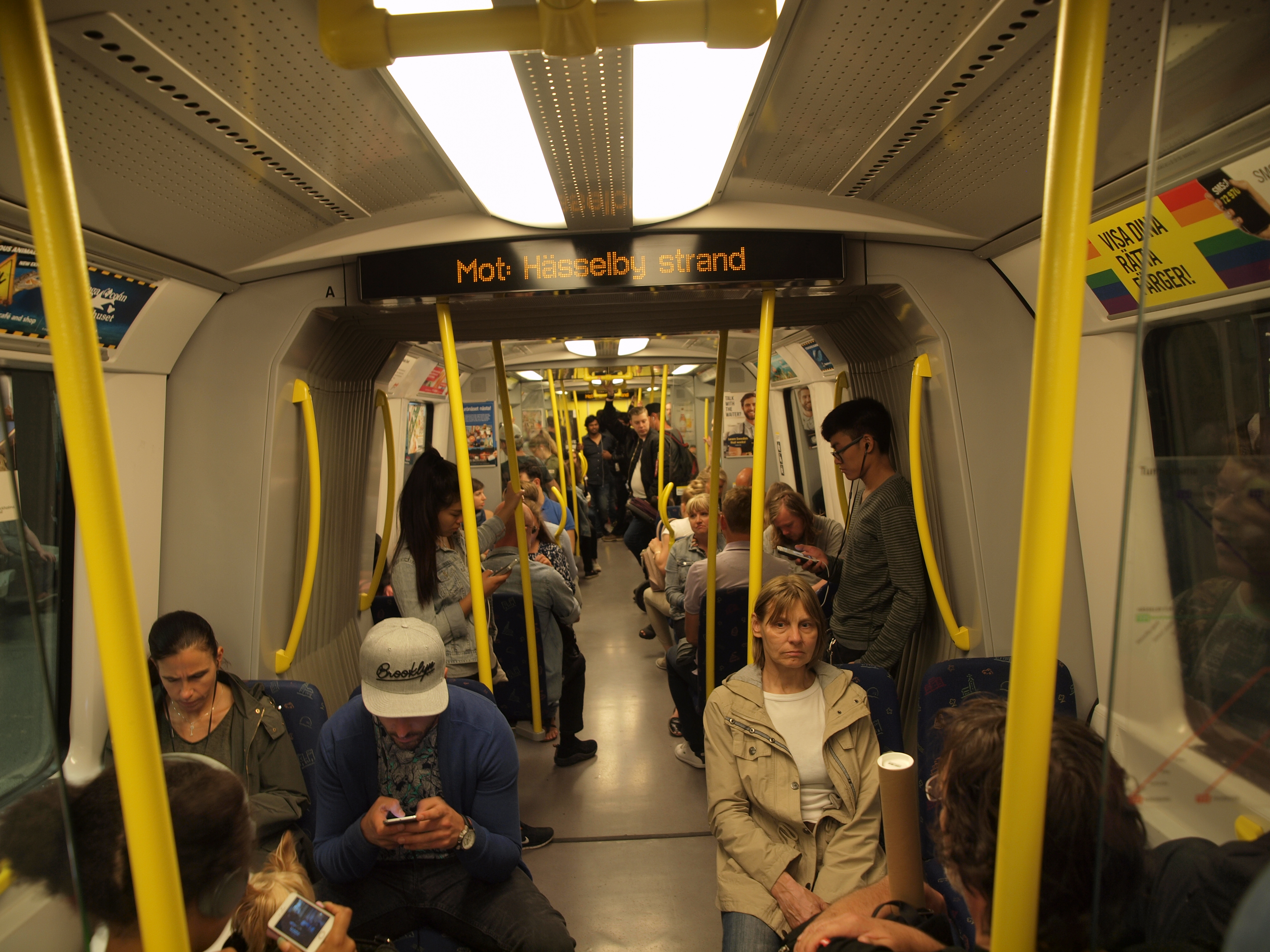 Interior view of a metro train on the Stockholm Metro in middle July 2016.